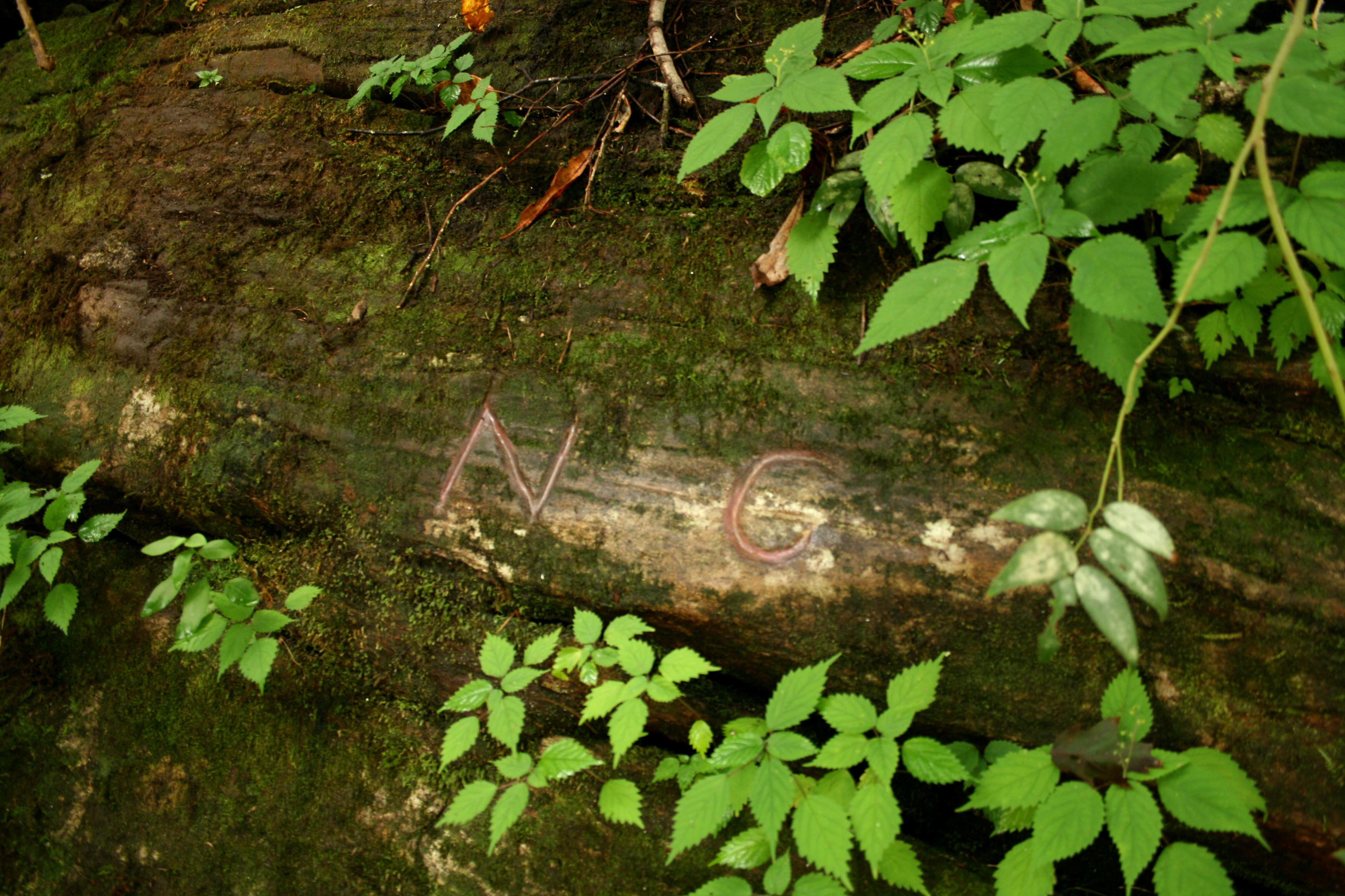 Ellicott's Rock photographed at 1 p.m. When the photographer found the inscription, it had been highlighted with red chalk.